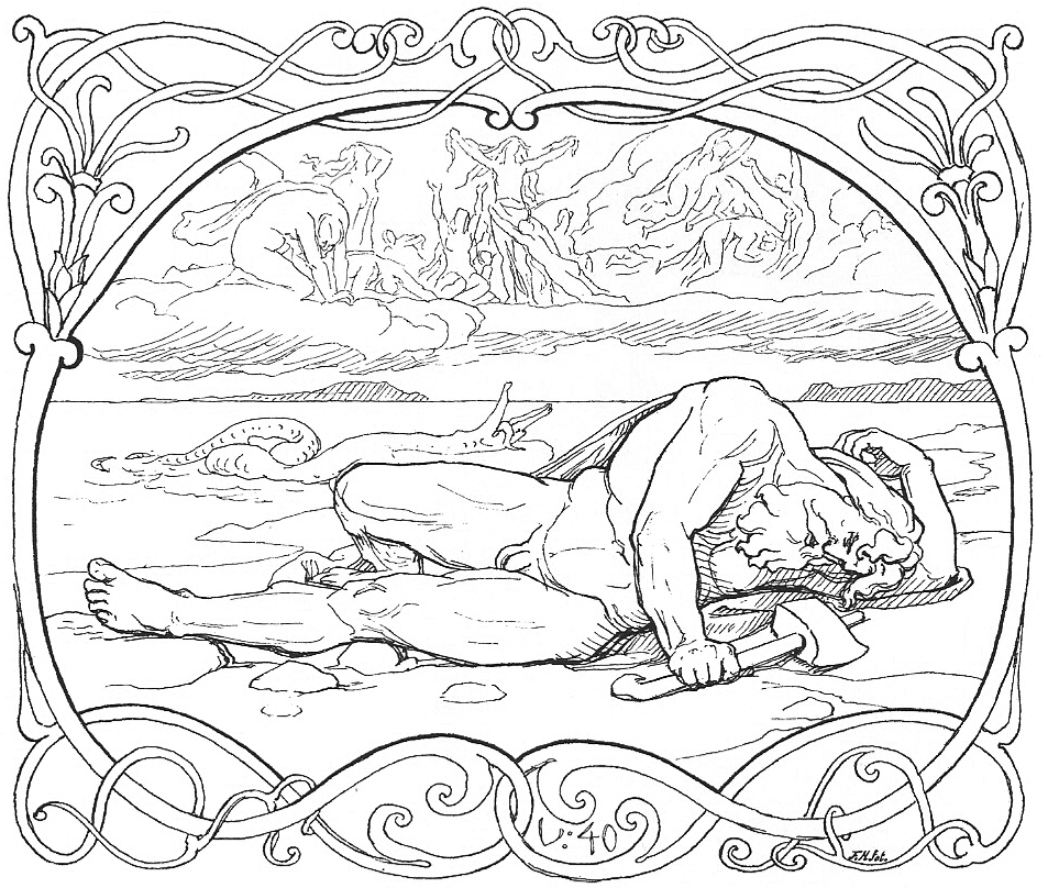 Thor and Jörmungandr lay dead—having mutually killed one another during the events of Ragnarök—as foretold in Völuspá.